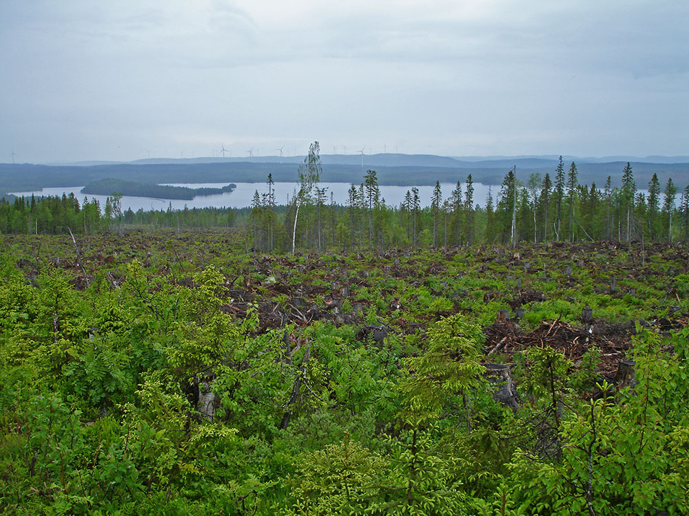 Lake Hinnsjön, Örnsköldsvik Municipality, Sweden, viewed from the south.